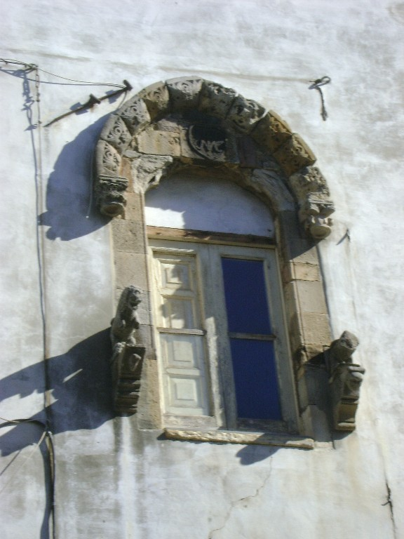 The ogival window of the sixteenth-century House De Marco to Atessa that in past it was the castle of the city